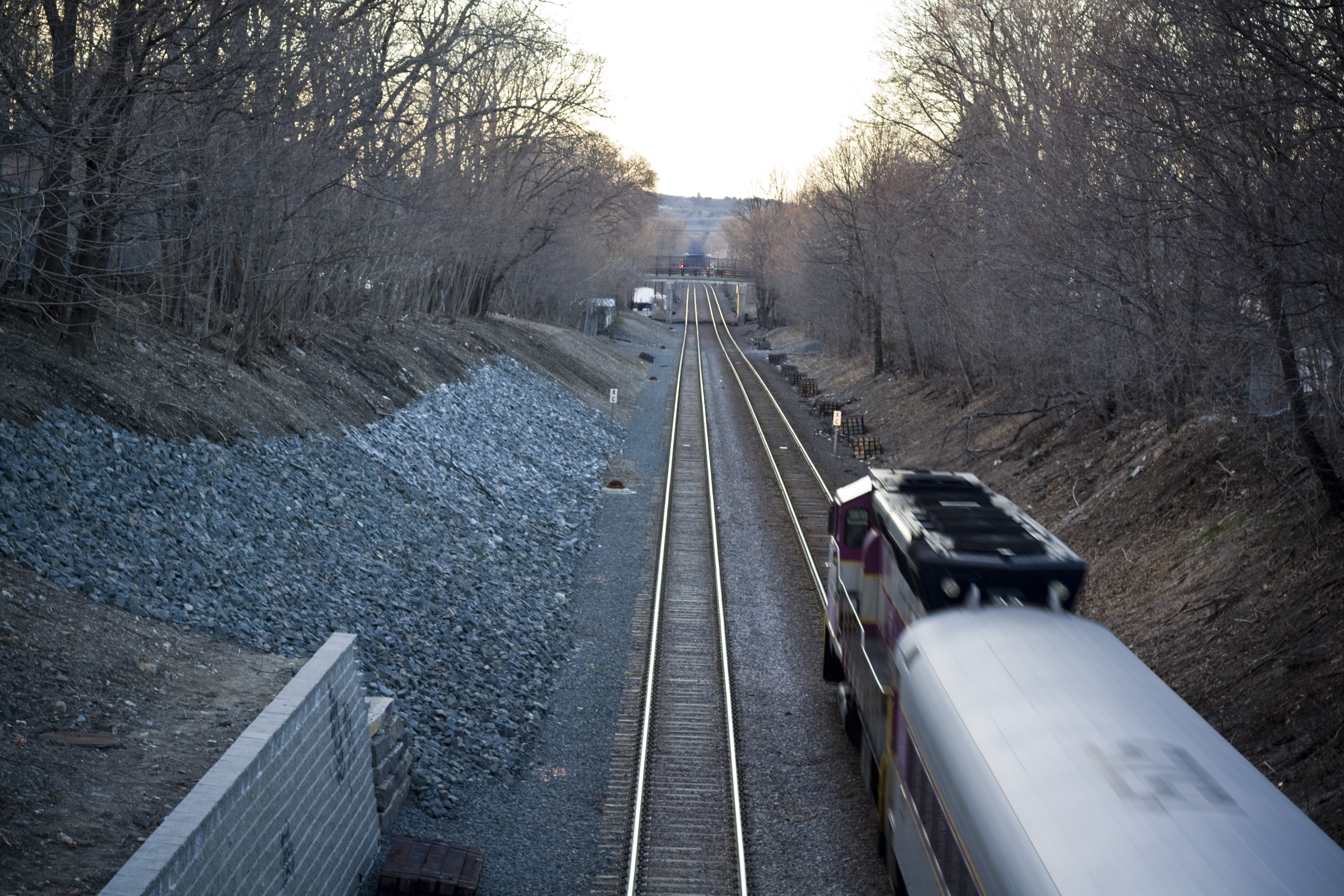 Lowell Line train #335PM passes under Winthrop Street in Medford, outbound to Lowell